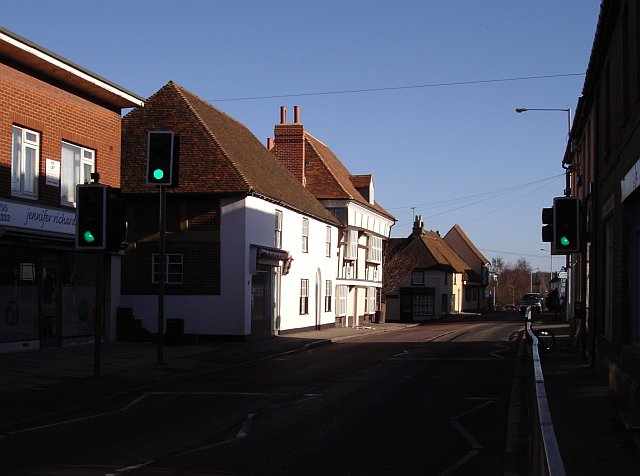 High Street, Newington. Looking east from near Bull Lane.